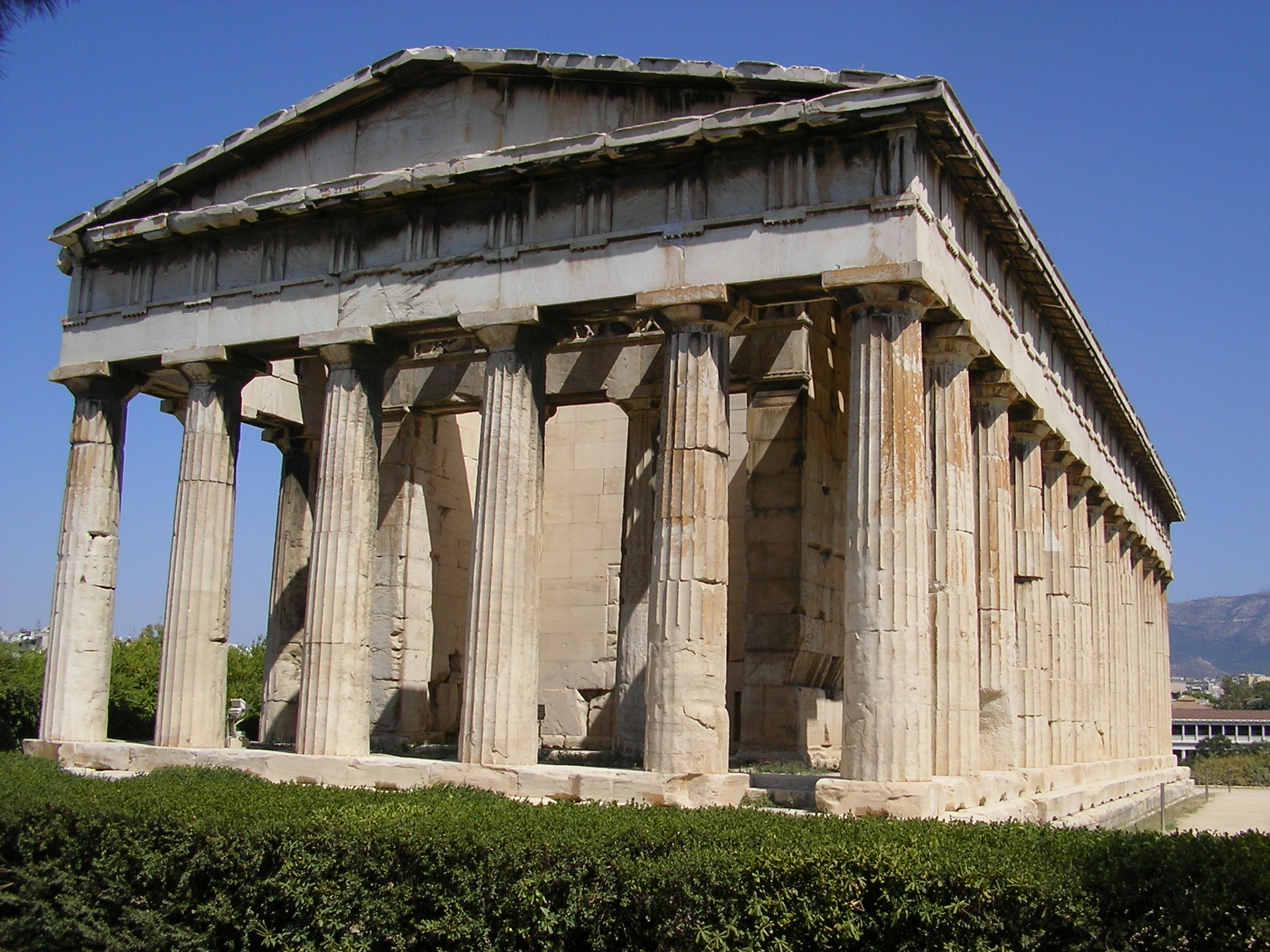 The temple of Hephaistos, Athens, Greece.